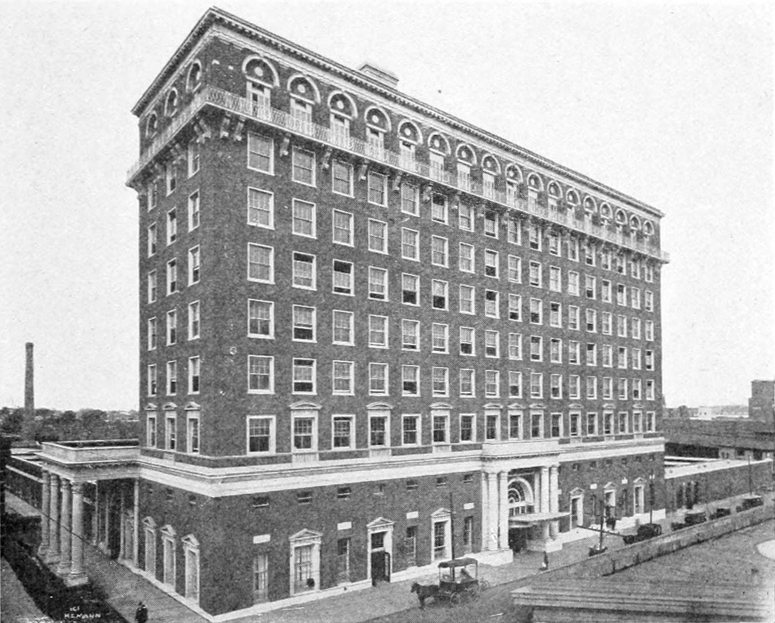 Photo of the Norfolk Terminal Station in Norfolk, Virginia from a promotional guidebook dated 1914. The building was demolished in the 1960s.